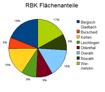 The municipalities in the Rheinisch-Bergischer Kreis, a district in Germany.